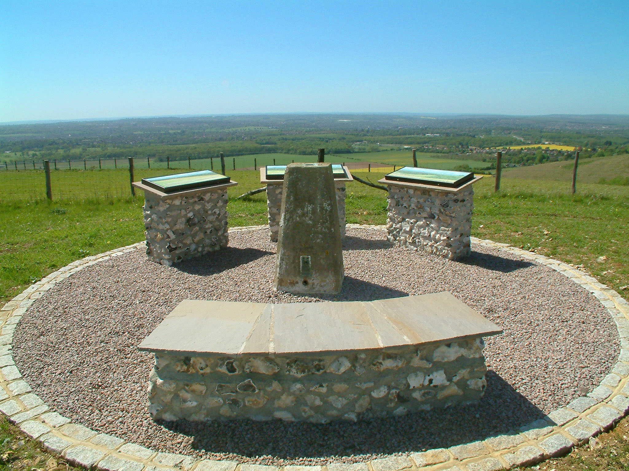 View south from Detling Hill, part of the North Downs in Kent, looking out across the Low Weald. Photograph by Stephen Dawson, 4 May 2003.